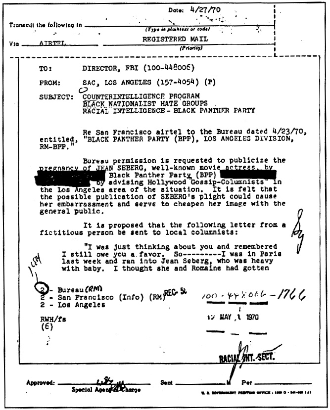 Exchange of information between FBI HQ and FBI Los Angelese, in plans to defame Jean Seberg.